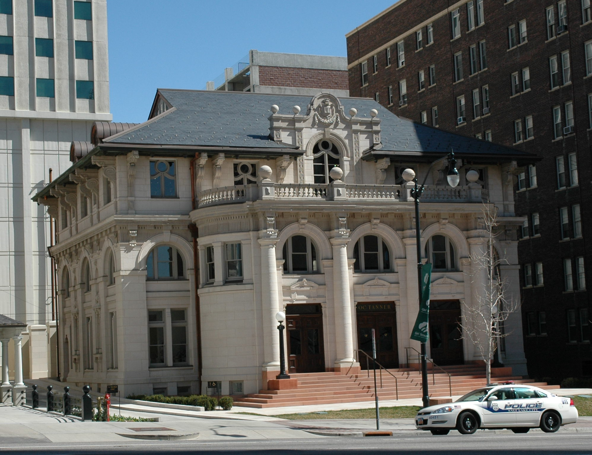 The Old Hansen Planetarium building, located at 15 S. State St., Salt Lake City, Utah, United States, is listed on the National Register of Historic Places as the Salt Lake City Public Library. It housed the Hansen Planetarium 1965–2003. Since 2009 it has been the "flagship store" of O.C. Tanner Jewelry.